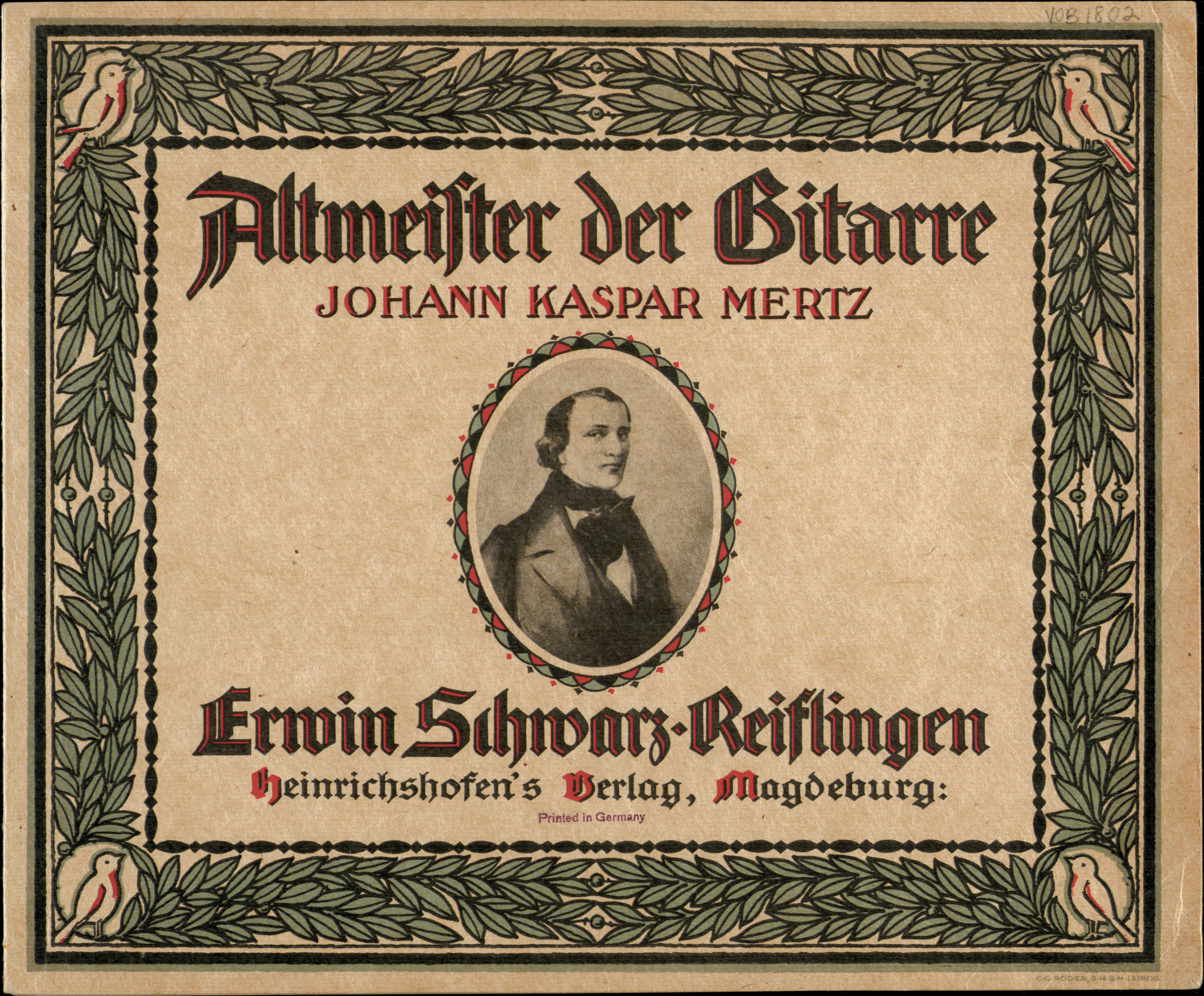 Cover of Schwarz-Reiflingen, Erwin. Altmeister der Gitarre: Johann Kaspar Mertz. Magdeburg: Heinrichhofen’s Verlag, 1920. (Bickford Collection, VOB1802, Special Collections and Archives, Oviatt Library, California State University, Northridge) republished in Kimura, Masami. Tárrega and Mertz. Dallas: DGA Editions, 2018.